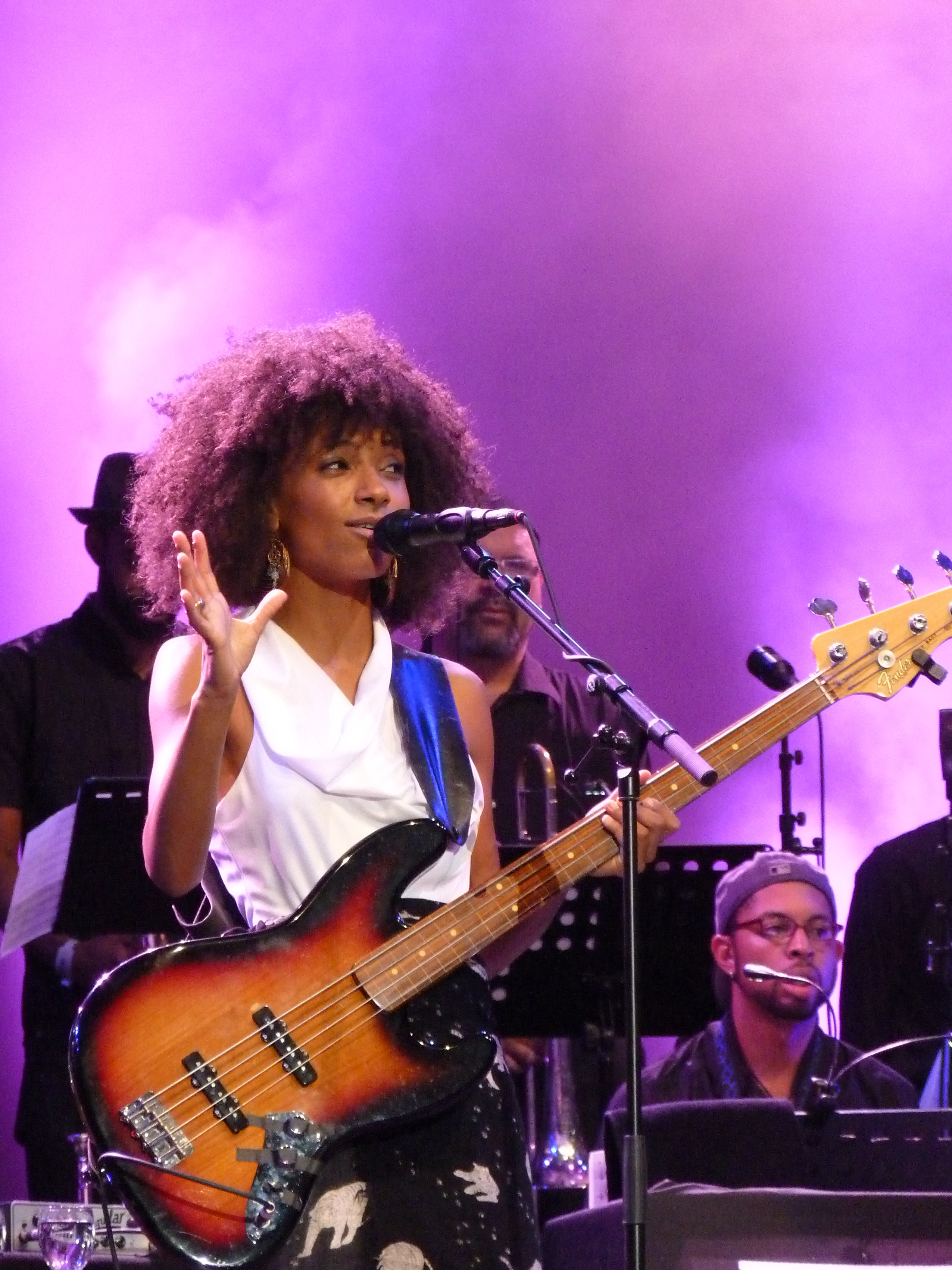 Jazz singer and bassist Esperanza Spalding performing at the North Sea Jazz festival in Rotterdam, The Netherlands